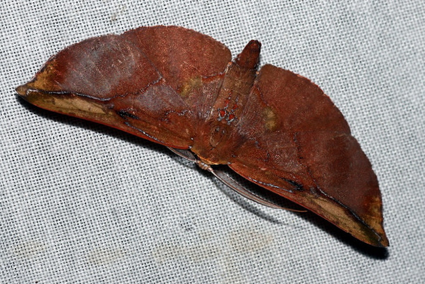 Omiza lycoraria, typical form. Borneo, Crocker Range National Park